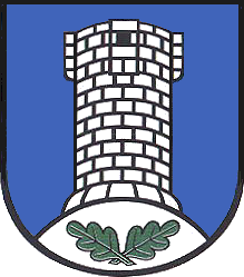 Coat of Arms of Wehnde